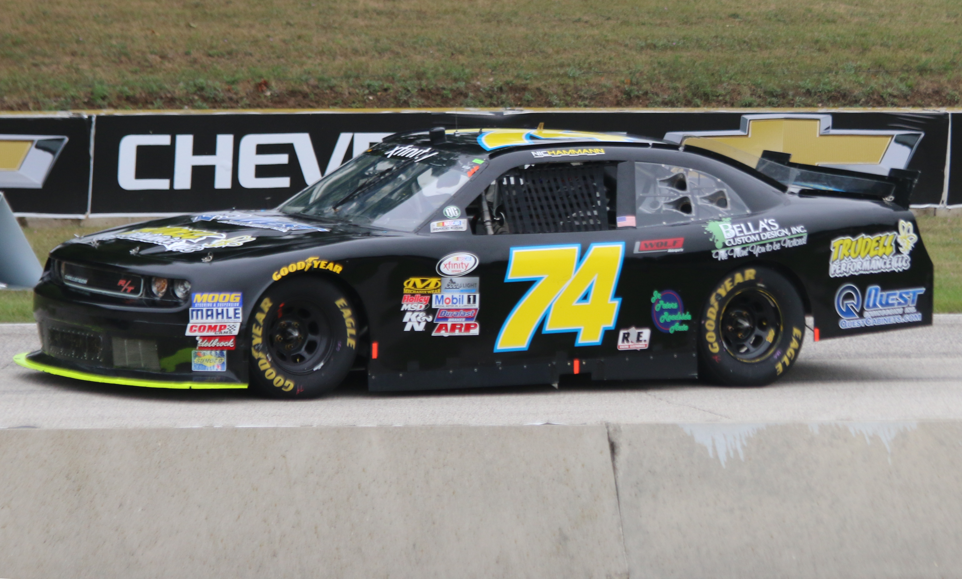 The Dodge Challenger of Nicolas Hammann at the NASCAR Xfinity Series Road America 180.